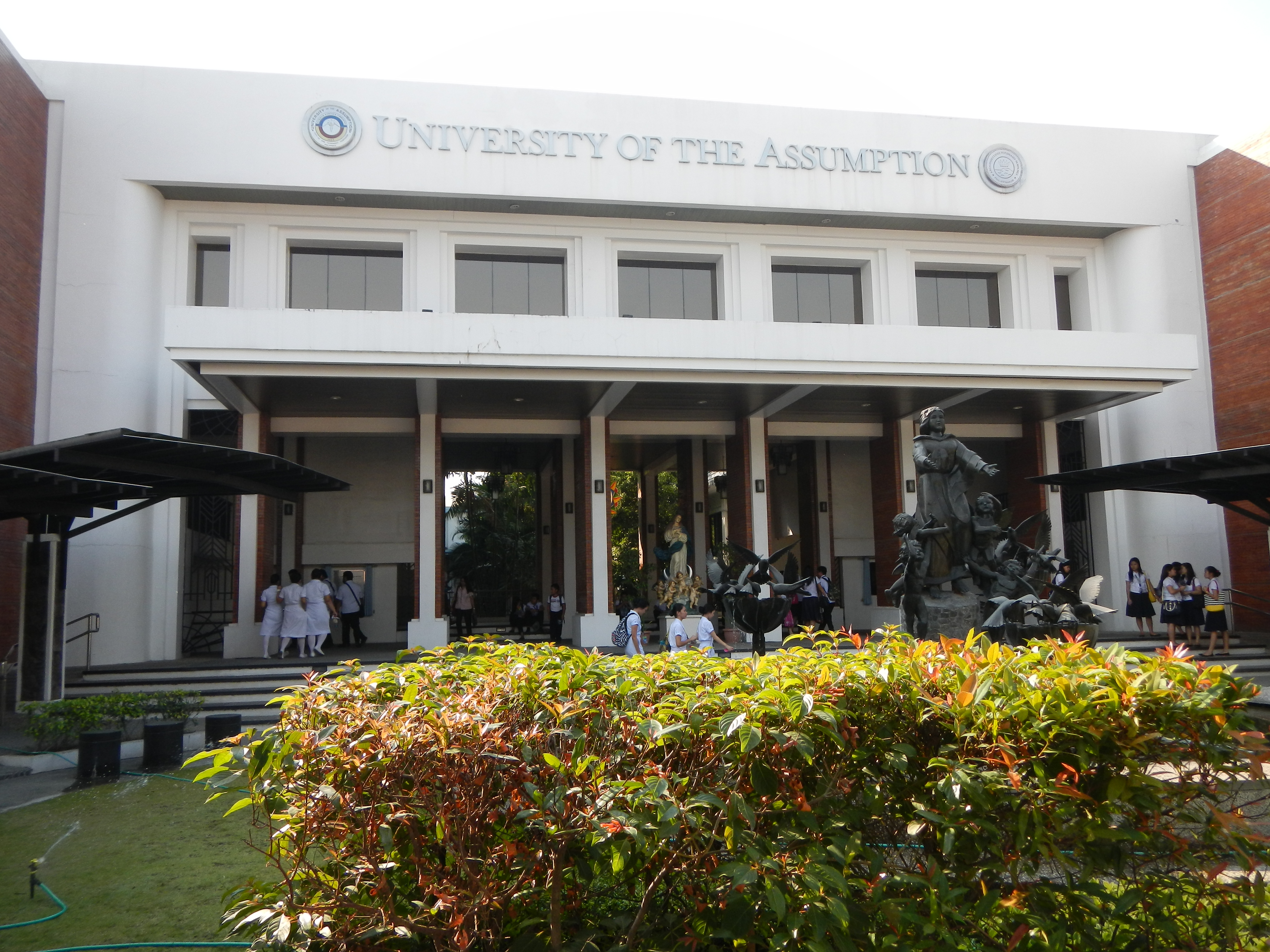 Upload Wizard photo of - San Fernando, Pampanga[1] --- University of the Assumption [2] is a private Archdiocesan Catholic university located in the City of San Fernando, Pampanga, Philippines founded on January 12, 1963; Website Unisite Subd., Del Pilar City of San Fernando, Pampanga 2000 Philippines The Msgr. Guerrero building which houses the University Chapel beside the Archdiocesan Museum and Archives of the Archdiocese of San Fernando housed at the University of the Assumption, 3rd and 4th floors.